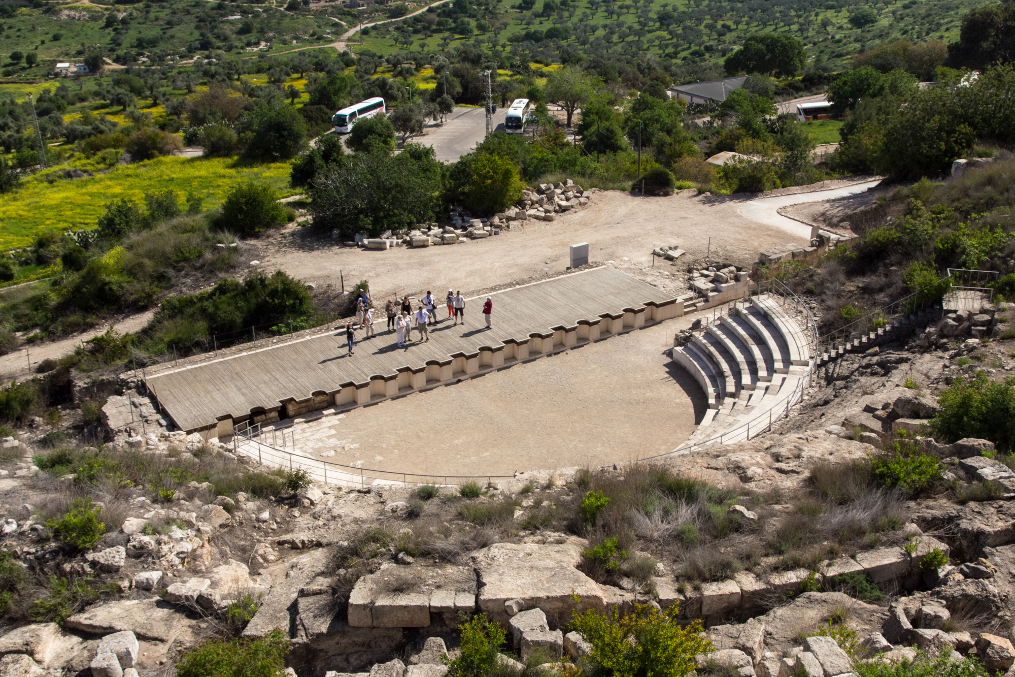 Ancient Roman theatre from the Crusader fortlet at Sepphoris